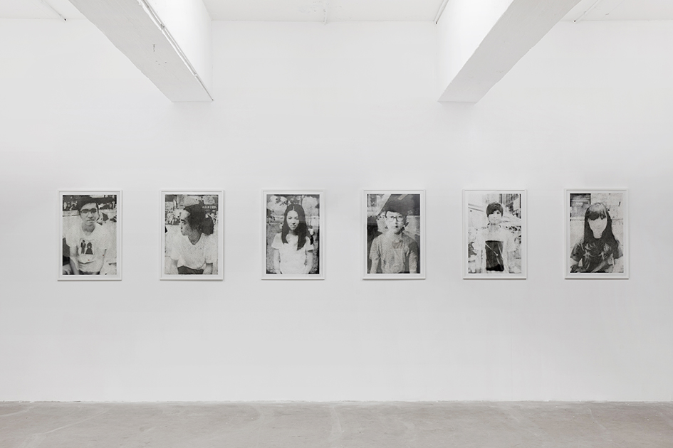 Young people in Umbrella Movement 2014